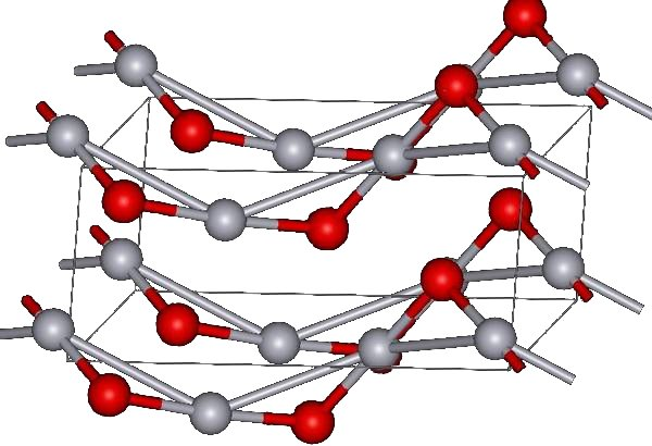 Cinnabar lattice structure (HgO), red atoms are oxygens Journal = ACTA CHEMICA SCANDINAVICA Year = 1958 Volume = 12 Page = 1297-1304 Title = The Structure of Hexagonal Mercury(II)oxide Authors = Aurivillius K., Carlsson I.B. hexagonal - Trigonal Symbol (3 2) Pearson Symbol: hP6 Space Group: P3221 No 154 Category:mercury compounds